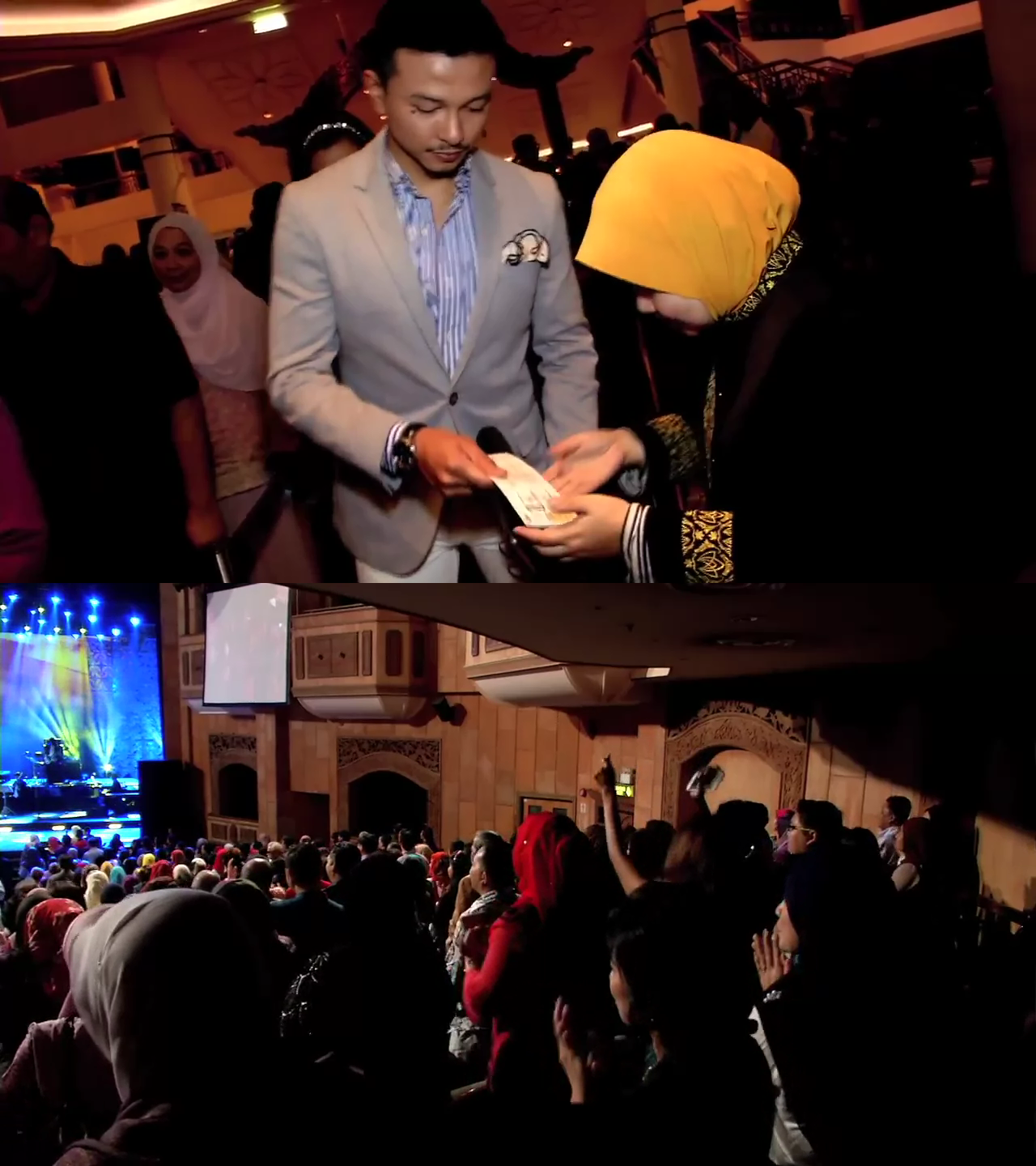 The admission process and the crowd from the right side of the Stalls area of Istana Budaya for the of Konsert Satu Suara, Vol. 2 that features Siti Nurhaliza and two of her musical guests, Hetty Koes Endang and Ramli Sarip.